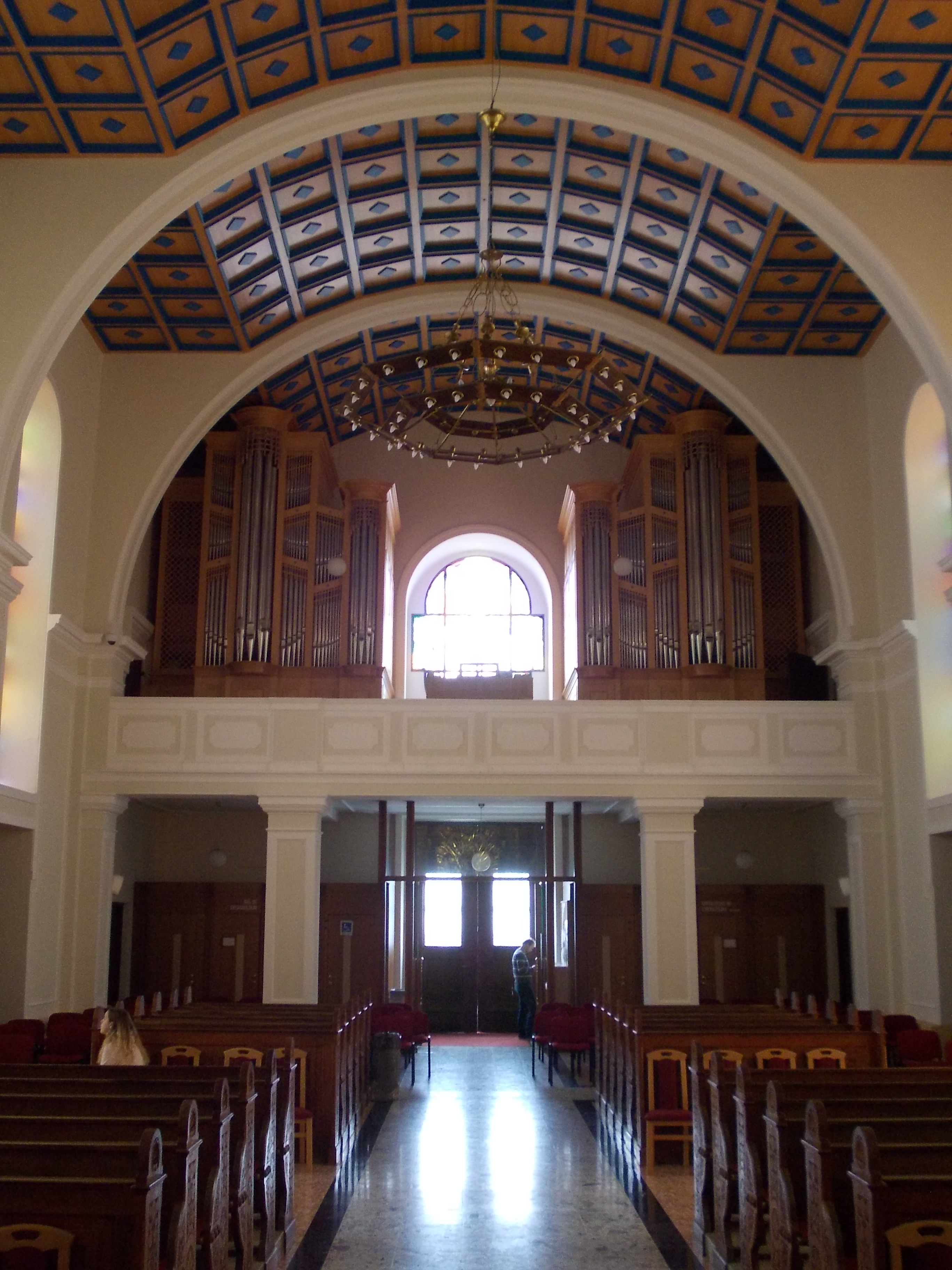 Assumption of Mary Church (Čatež)